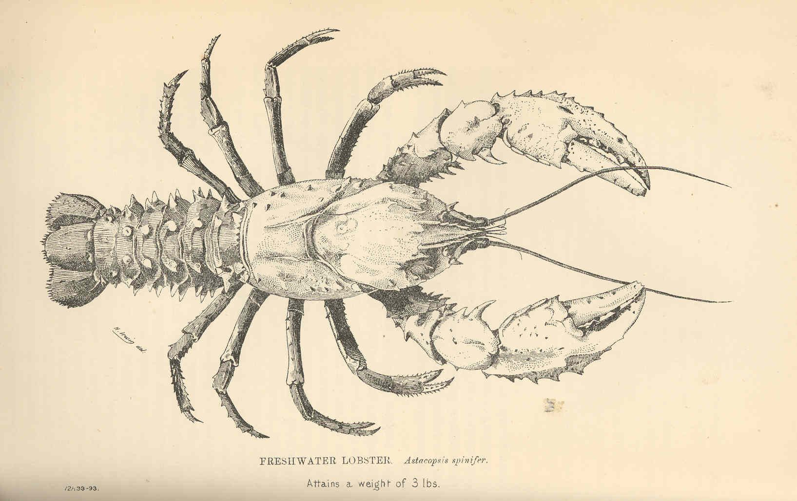 Freshwater Lobster. Astacopsis spinifer Attains a weight of 3 lbs Subject: Lobsters, Astacopsis Tag: Shellfish